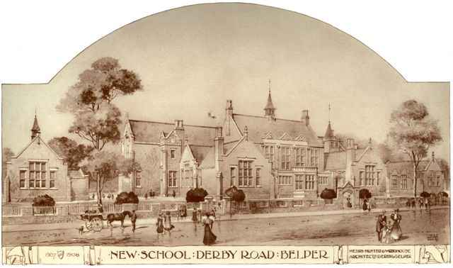 Herbert Strutt School was built by George Herbert Strutt (1854-1928), a cotton mill owner and philanthropist from Makeney[1] and Belper in Derbyshire in 1908